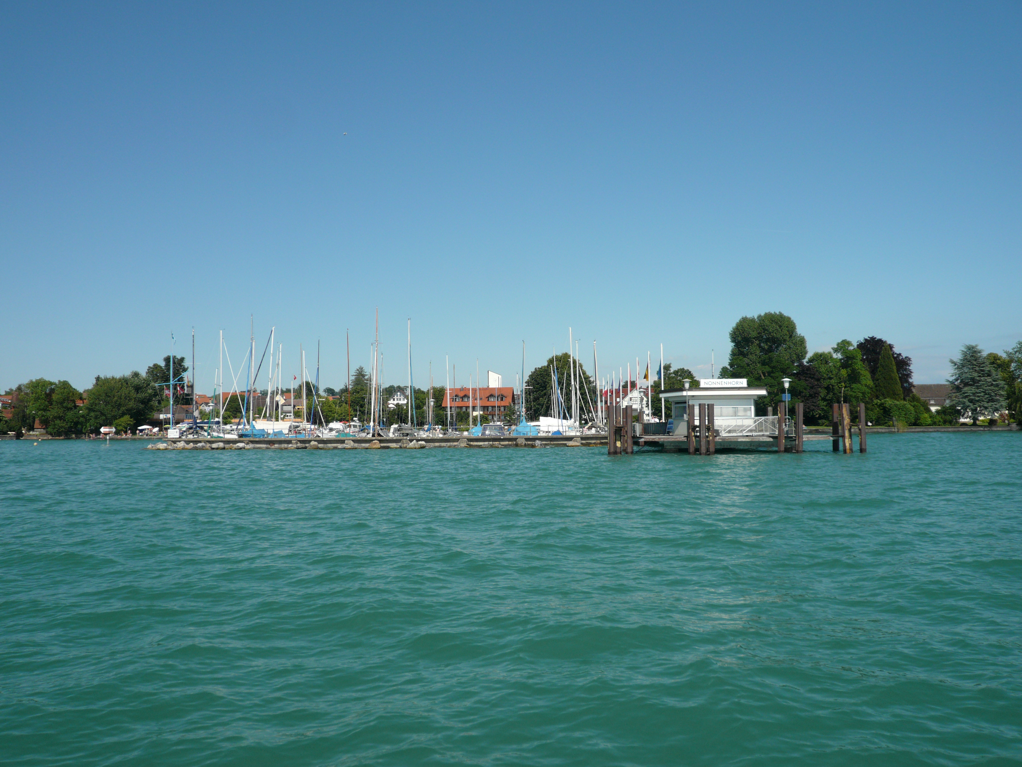 Nonnenhorn seen from Lake Constance